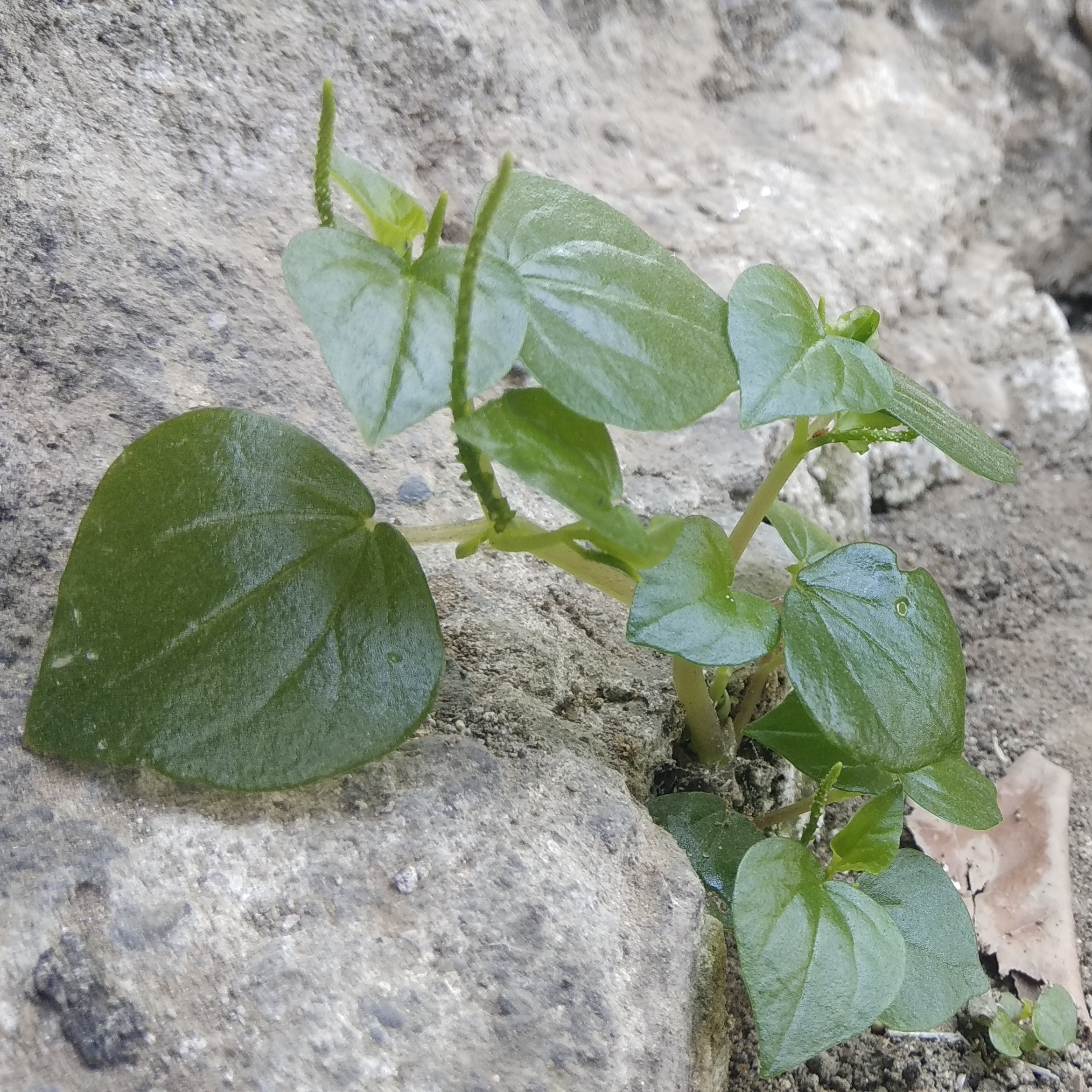 Peperomia pellucida